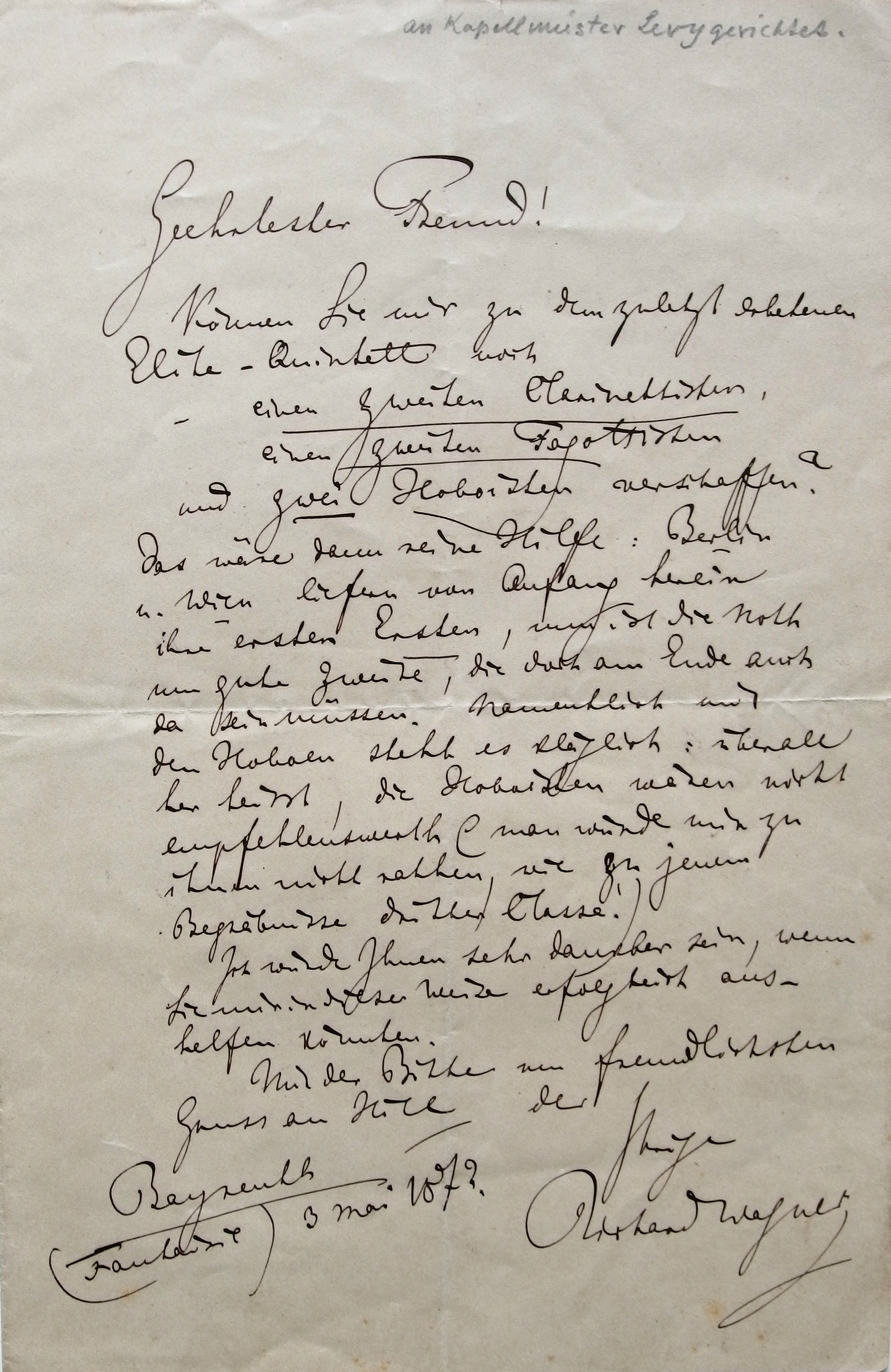 letter to Hermann Levi, 3 May, 1872